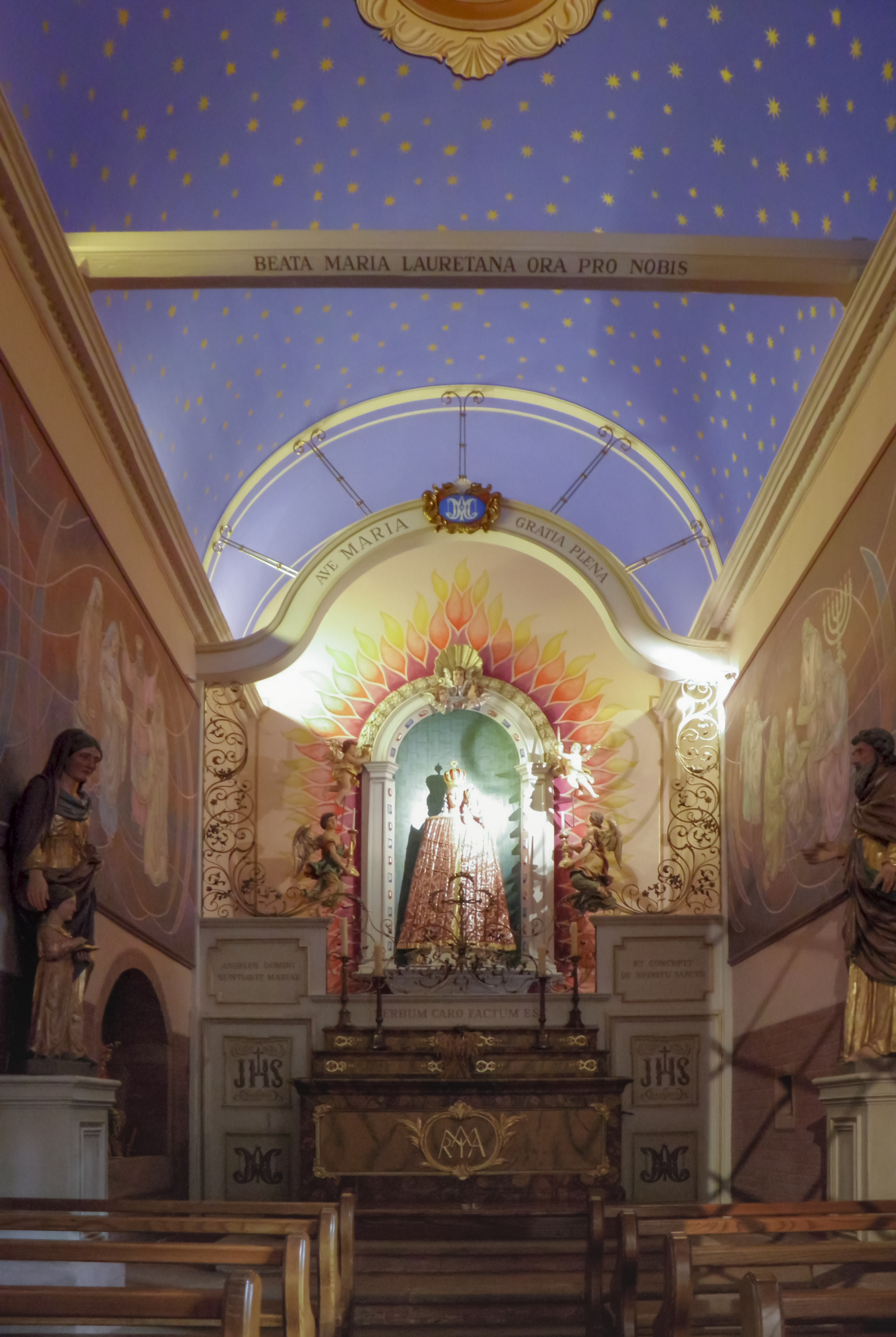 Interior of chapel Notre-Dame-de-Lorette in Murbach (Haut-Rhin, France).